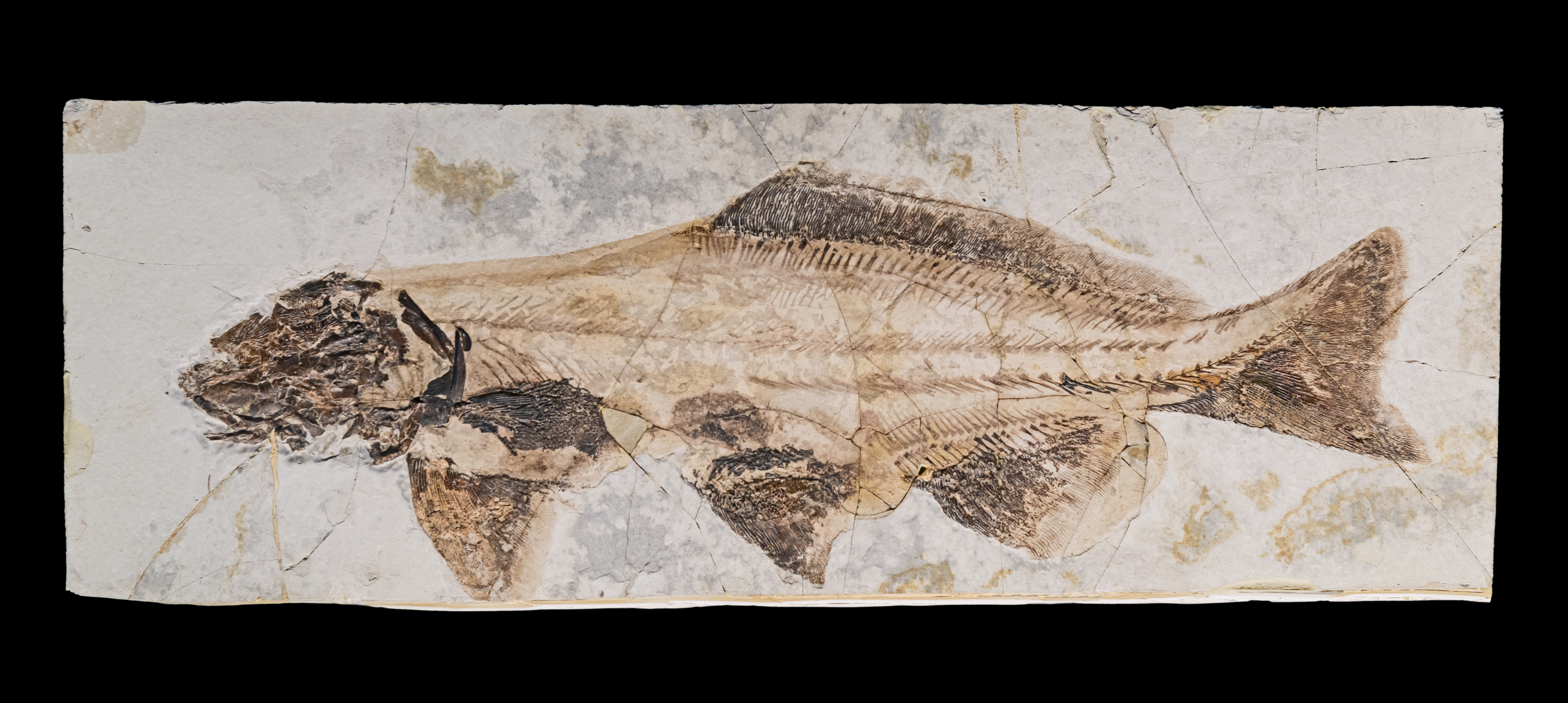 Yanosteus longidorsalis Size : 47.0x16.6x1.4 cm cm 1.79Kg Stage : Early Cretaceous 146 Ma to 100 Ma. (million years ago).